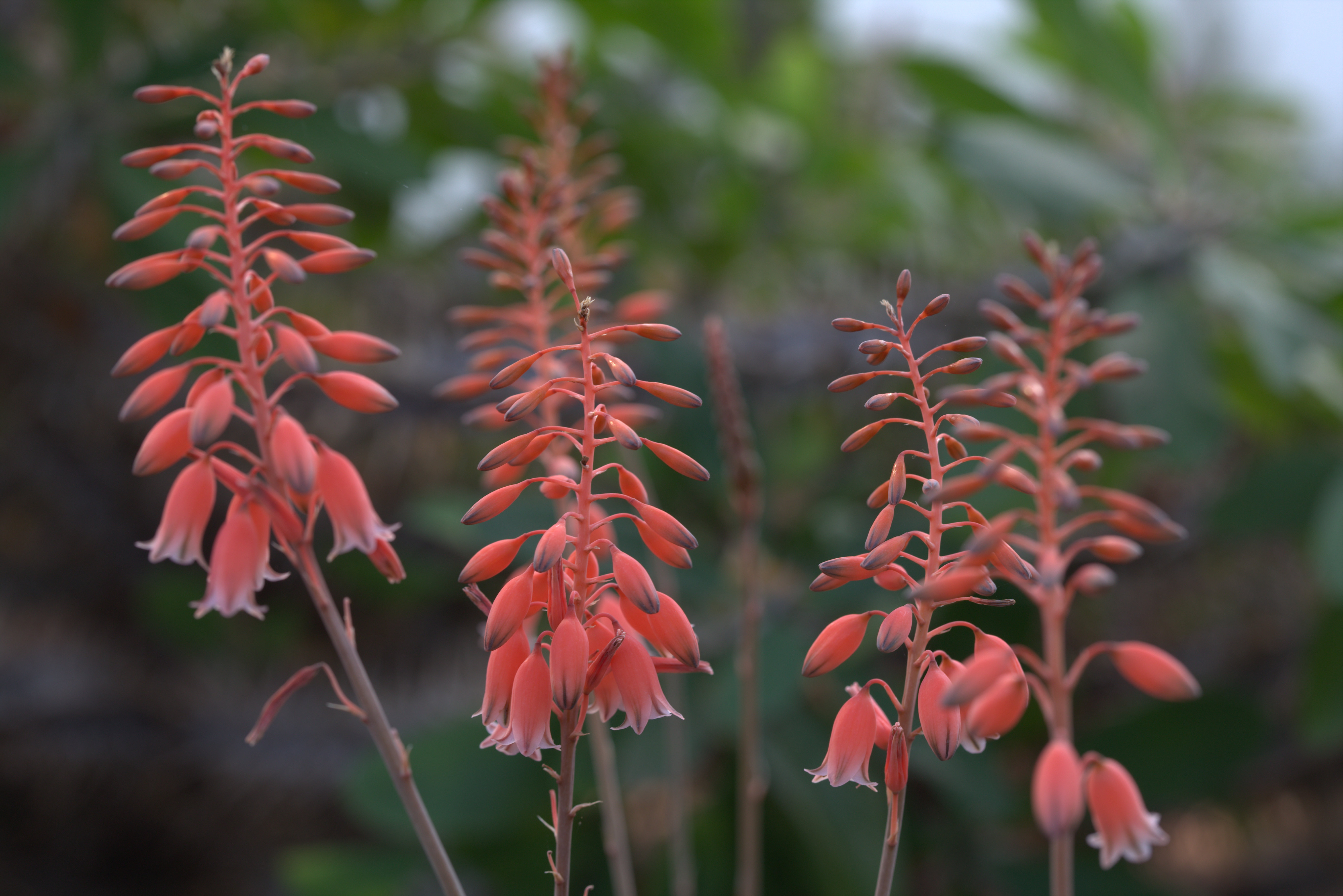 Aloe bellatula in Gothenburg botanical garden. Plant id: 1966-3881 u G -- Frankfurt